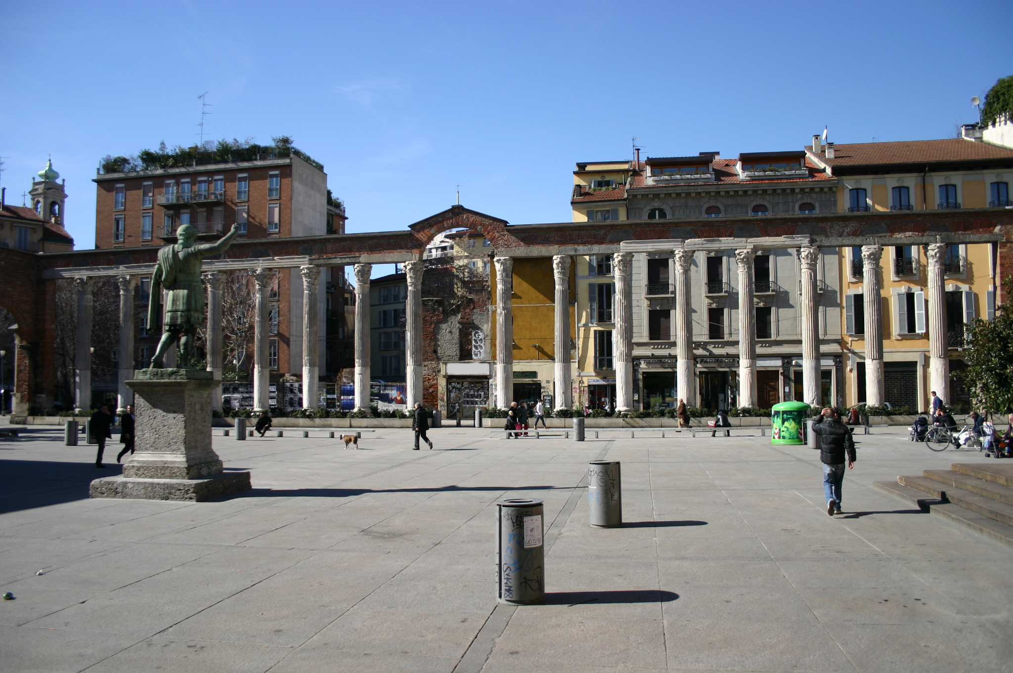 The Columns of San Lorenzo in Milan, Italy. Picture by Giovanni Dall'Orto, February 27 2007.